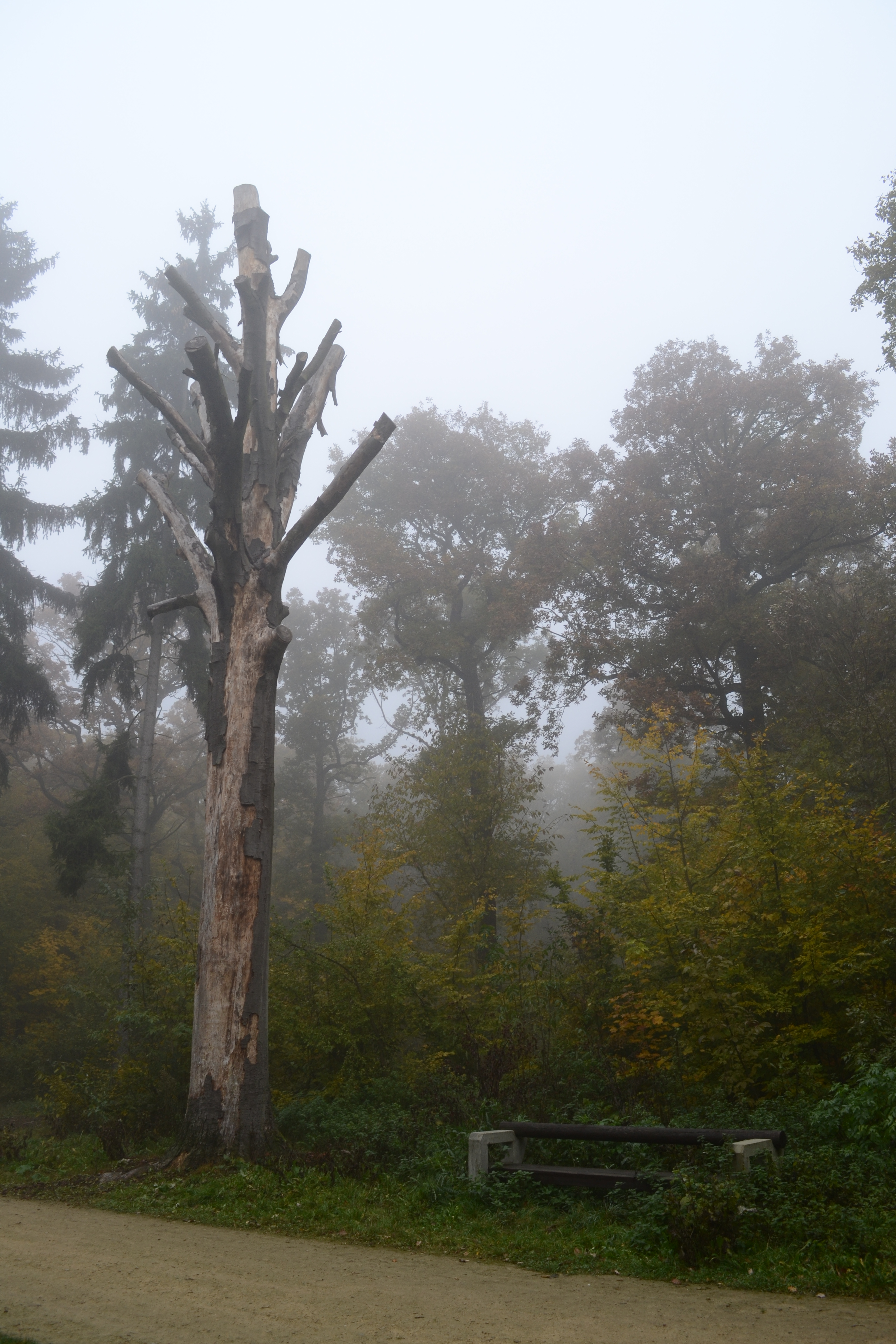 Remains of a famous Common Beech (Fagus sylvatica) in park Hvězda in Prague, Czech Republic.